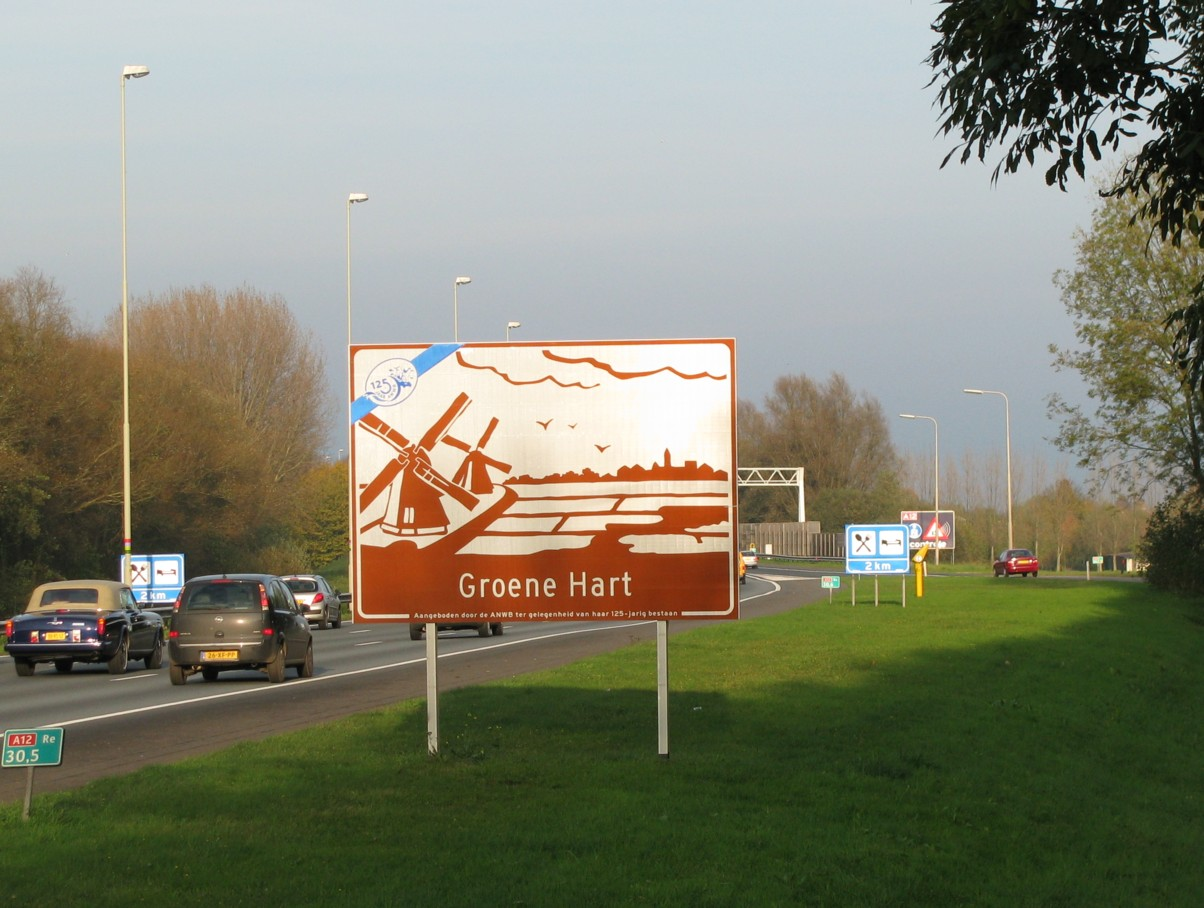 ANWB sign from the 125th anniversary of the organisation. It is a touristic sign marking the border of the Groene Hart region near Reeuwijk.